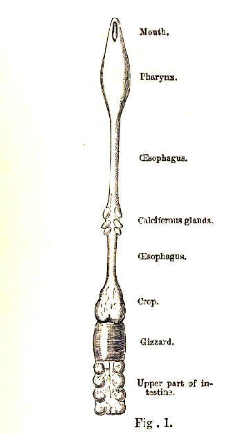 Diagram of the alimentary canal of an earthworm (Lumbricus)